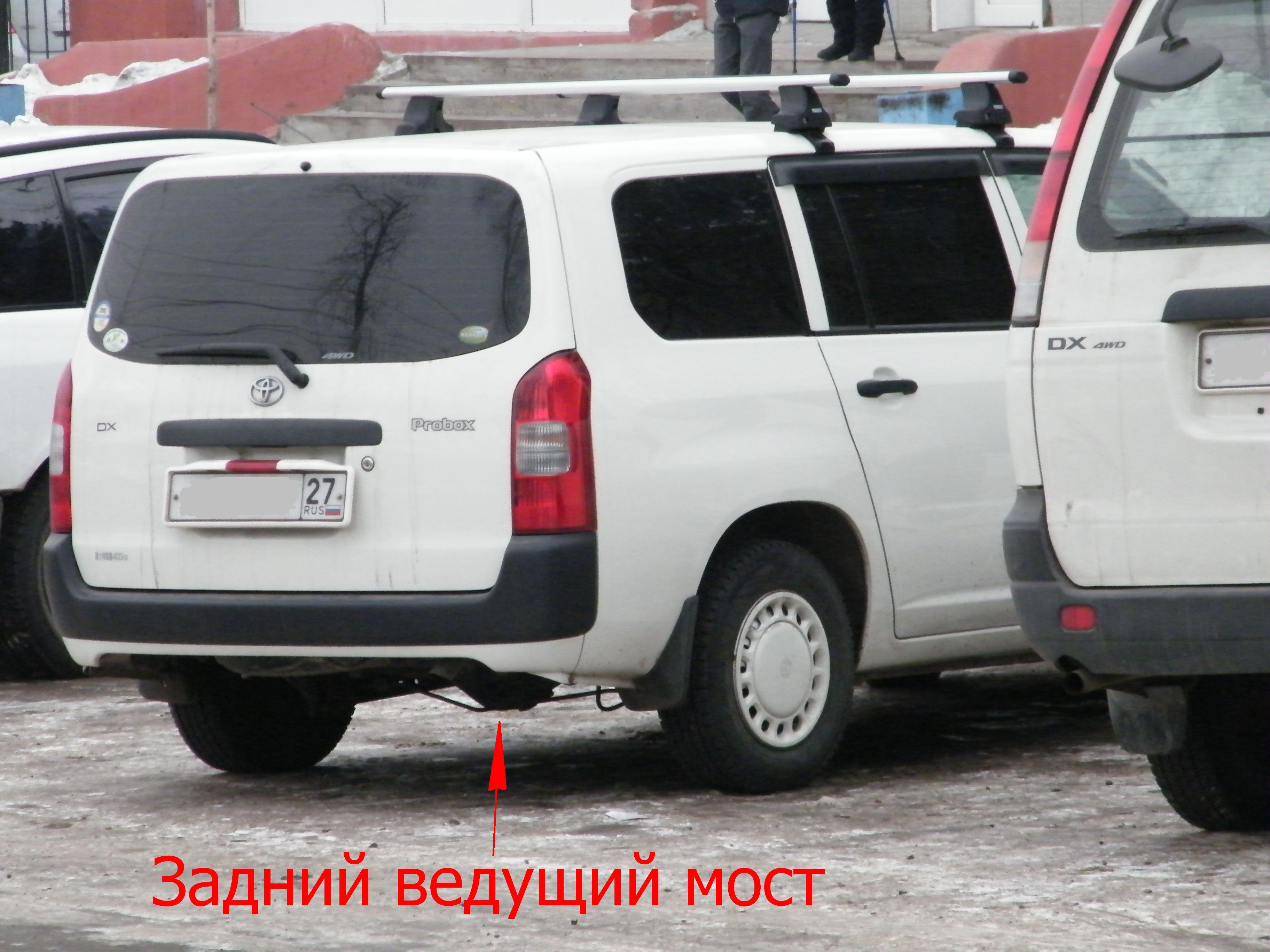 Toyota Probox